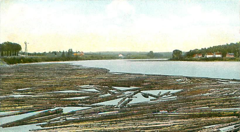 At the log boom on the Penobscot River, Bangor, Maine.